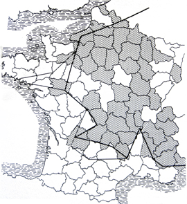 Distribution map of Limenitis populi in France